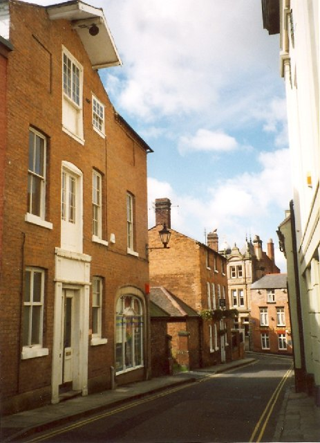 Former Warehouse, College Hill, Shrewsbury. An early 19C warehouse, now offices. Under the gable are loading doors on each floor with a single window each side. The extension to the right has an unusual with a wide segmentally-arched shop window.